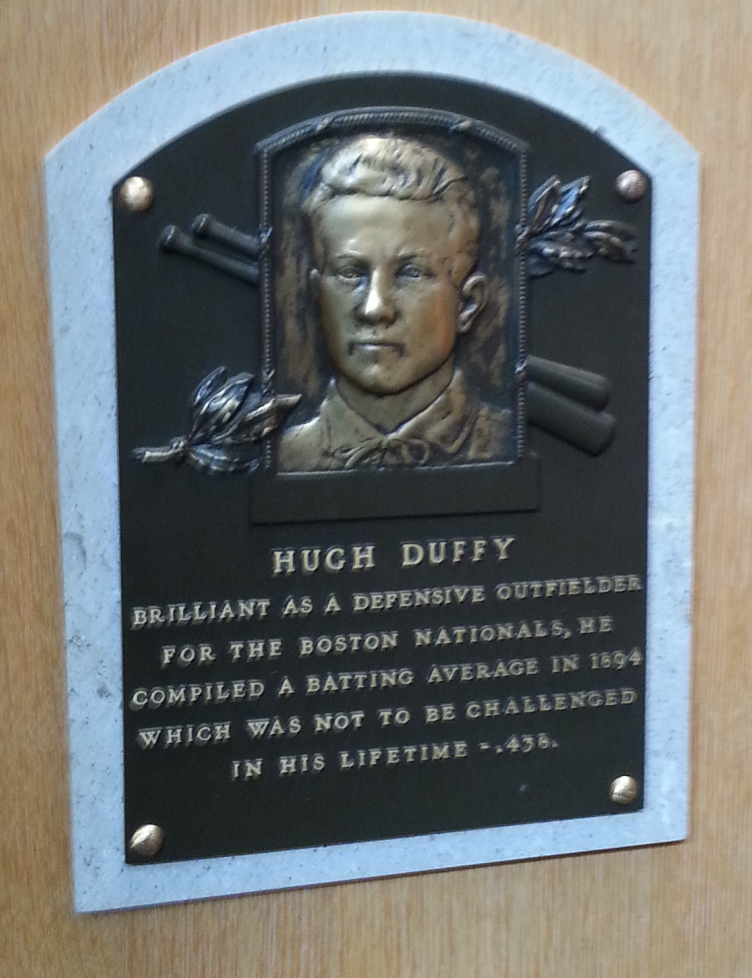 Hugh Duffy plaque in the National Baseball Hall of Fame